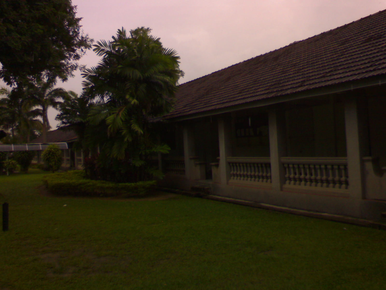 This is Block G of Chung Ling (National Type) High School.